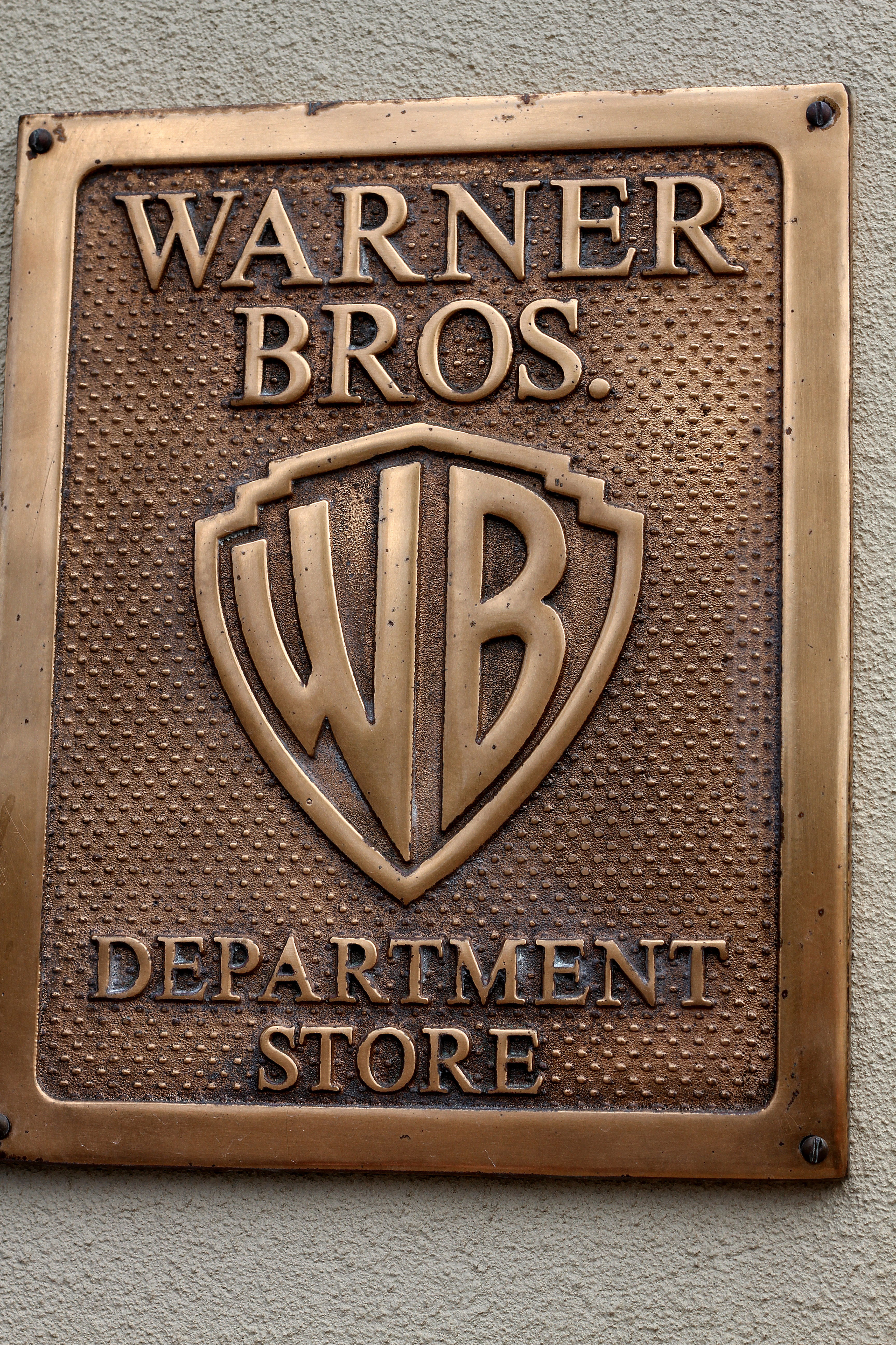 Gold Coast Australia